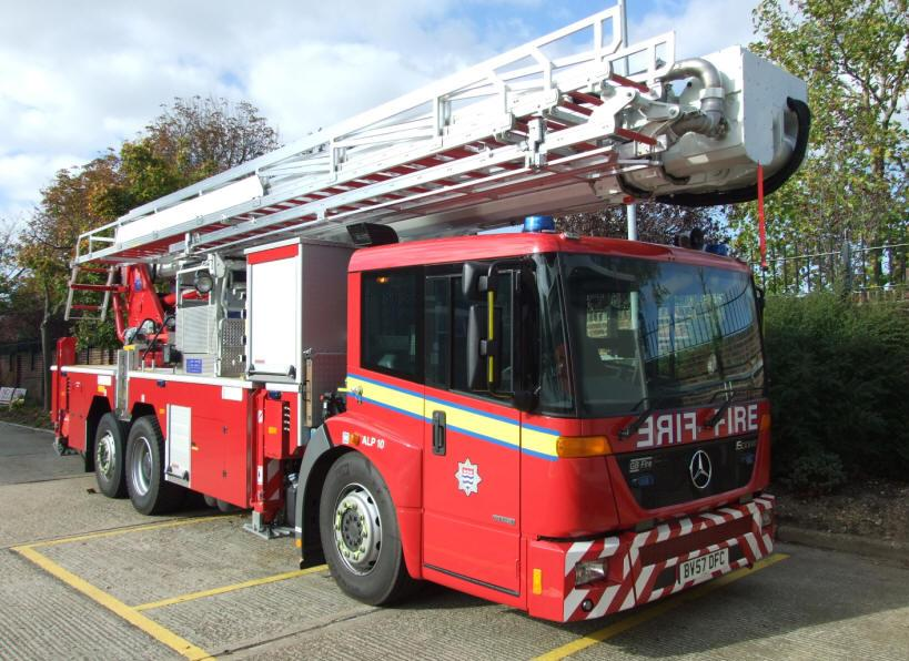 One of the newest ALPs yet to become operational in London